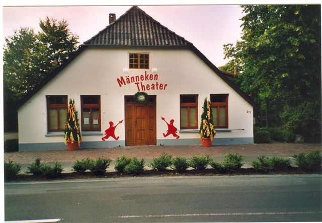 Theater